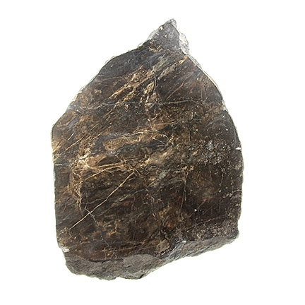 Galaxite, Jacobsite, Wiserite Dimensions: 11.6 cm x 7.3 cm x 2.0 cm Locality: Kaso Mine, Kanuma City, Tochigi Prefecture, Kanto Region, Honshu Island, Japan An incredibly rare specimen of the Spinel Group species galaxite from the Kaso Mine in Japan. In addition to the rare galaxite, both jacobsite and wiserite are present. This piece is a polished specimen which shows brown-red galaxite with semi-metallic black-grey jacobsite and minor tan wiserite. It is accompanied by a classic label from Josef Vajdák/Pequa Rare Minerals.